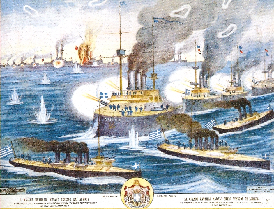 The Greek Navy under flagship Averof during the Naval Battle of Lemnos in January 1913 against the Ottoman fleet